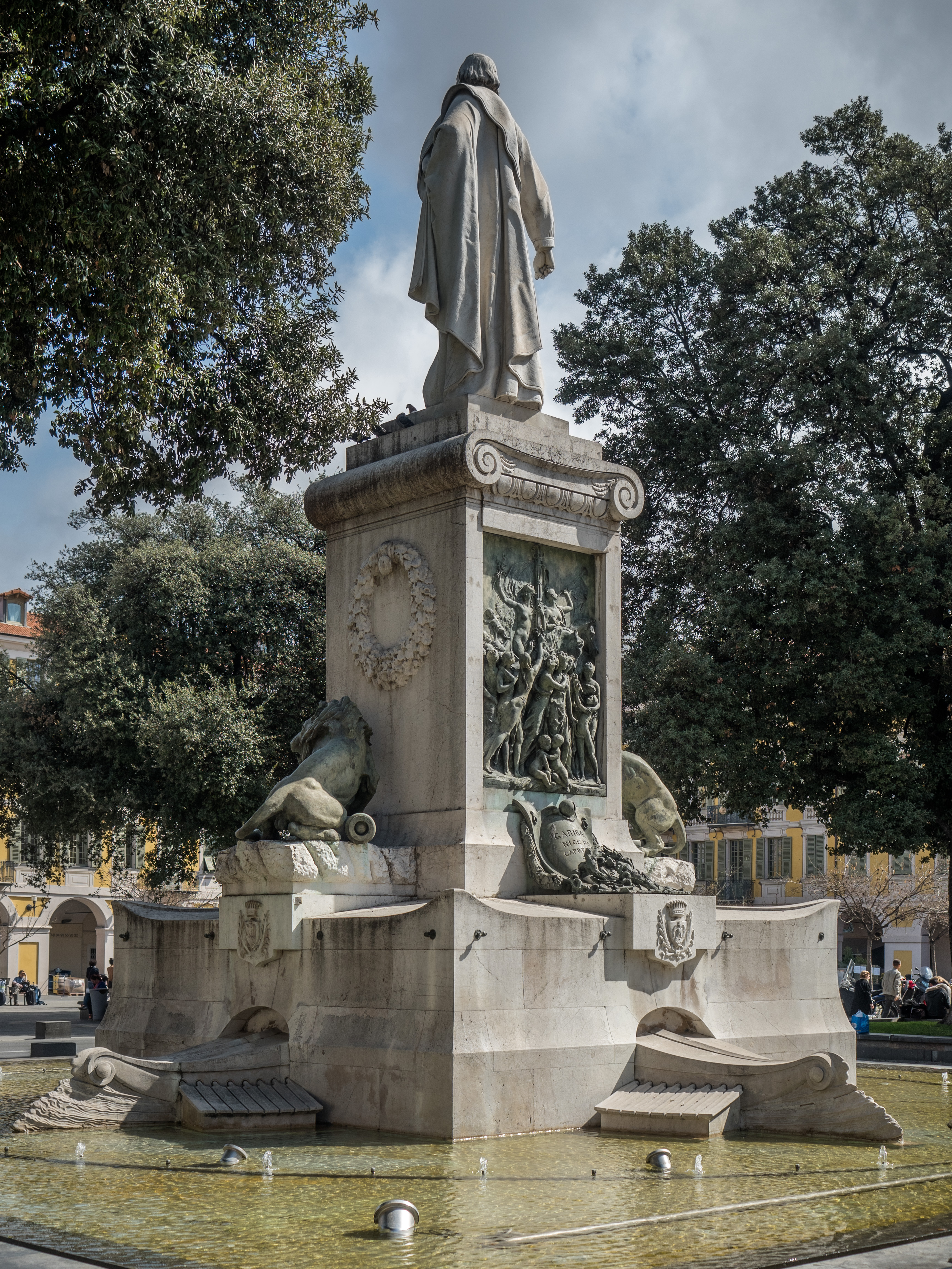 Garibaldi monument seen from the rear